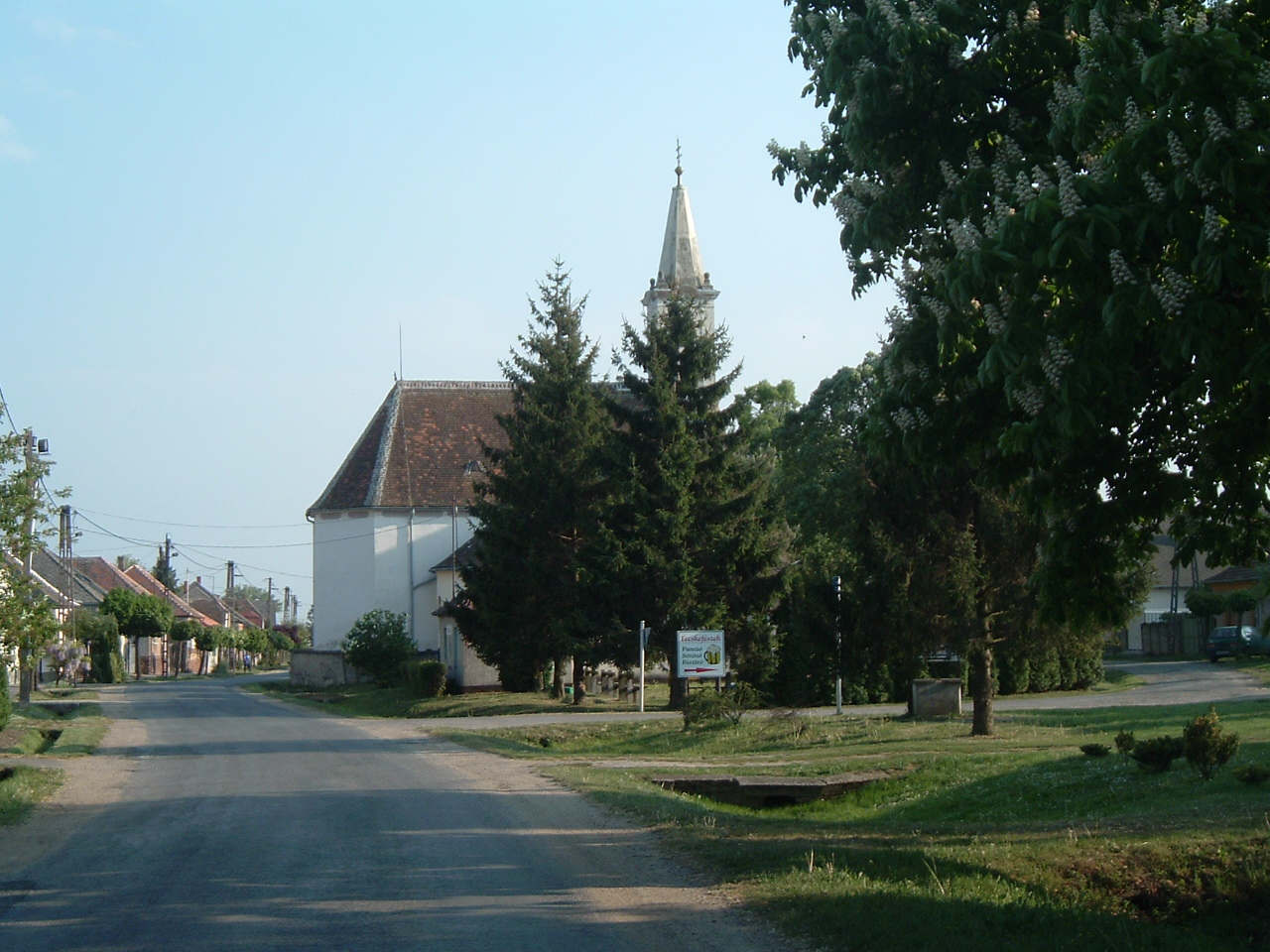 Meszlen, Roman Catholic Church